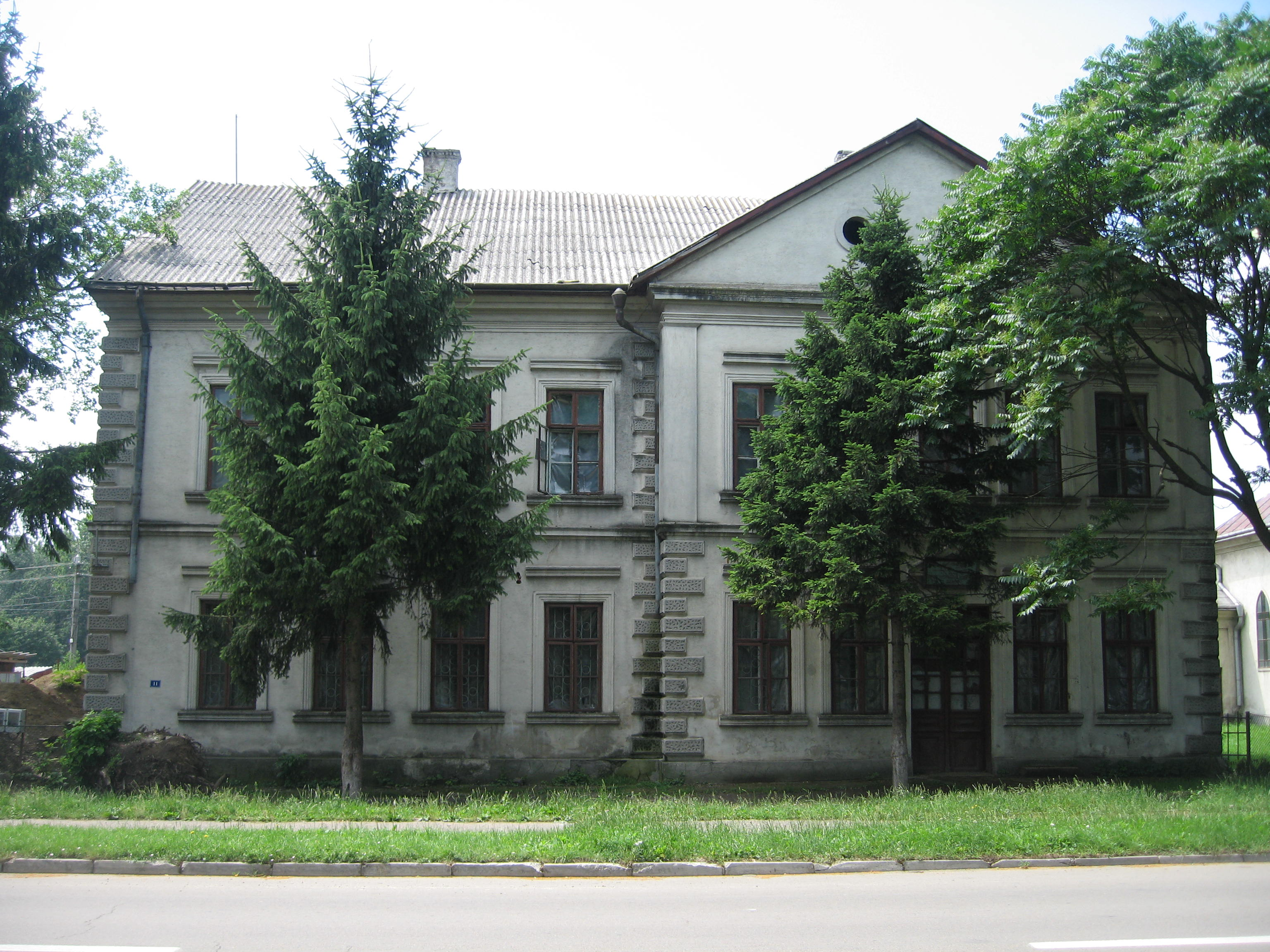 The old school on Gării Street in Iţcani, Suceava (former IAMSAT).